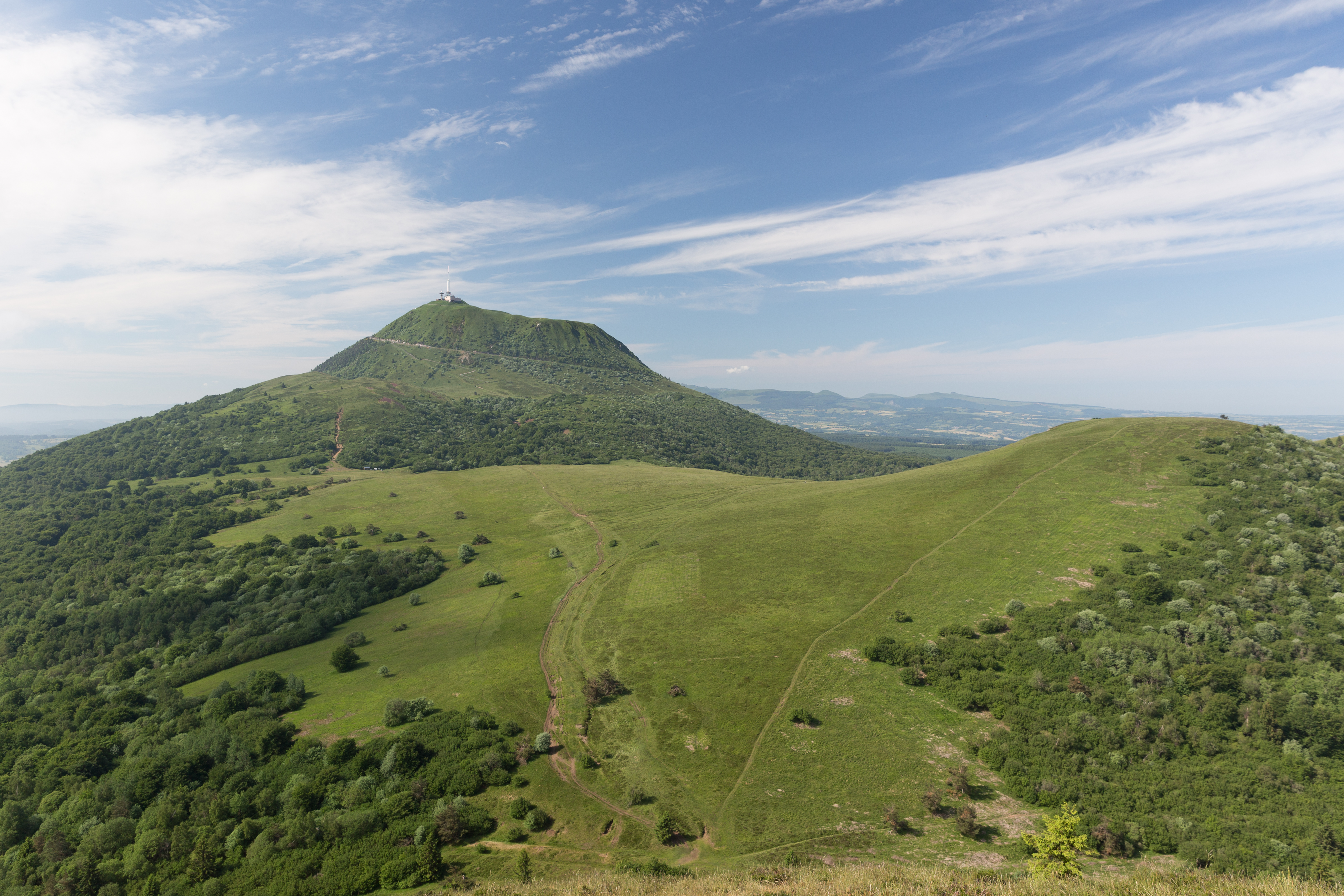 Northern slope of the puy de Dôme seen from the puy Pariou in Auvergne, France.